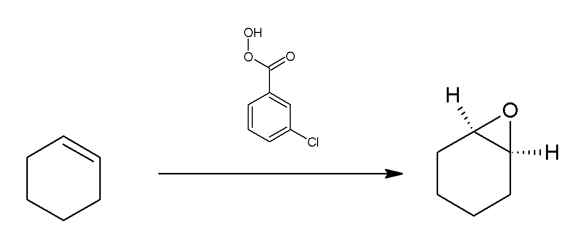 Reaction of cyclohexene with meta-Chloroperoxybenzoic acid